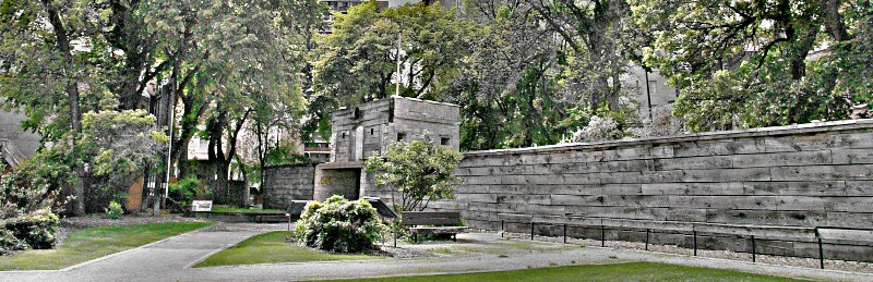 Image showing Upper Fort Garry park as it is today.